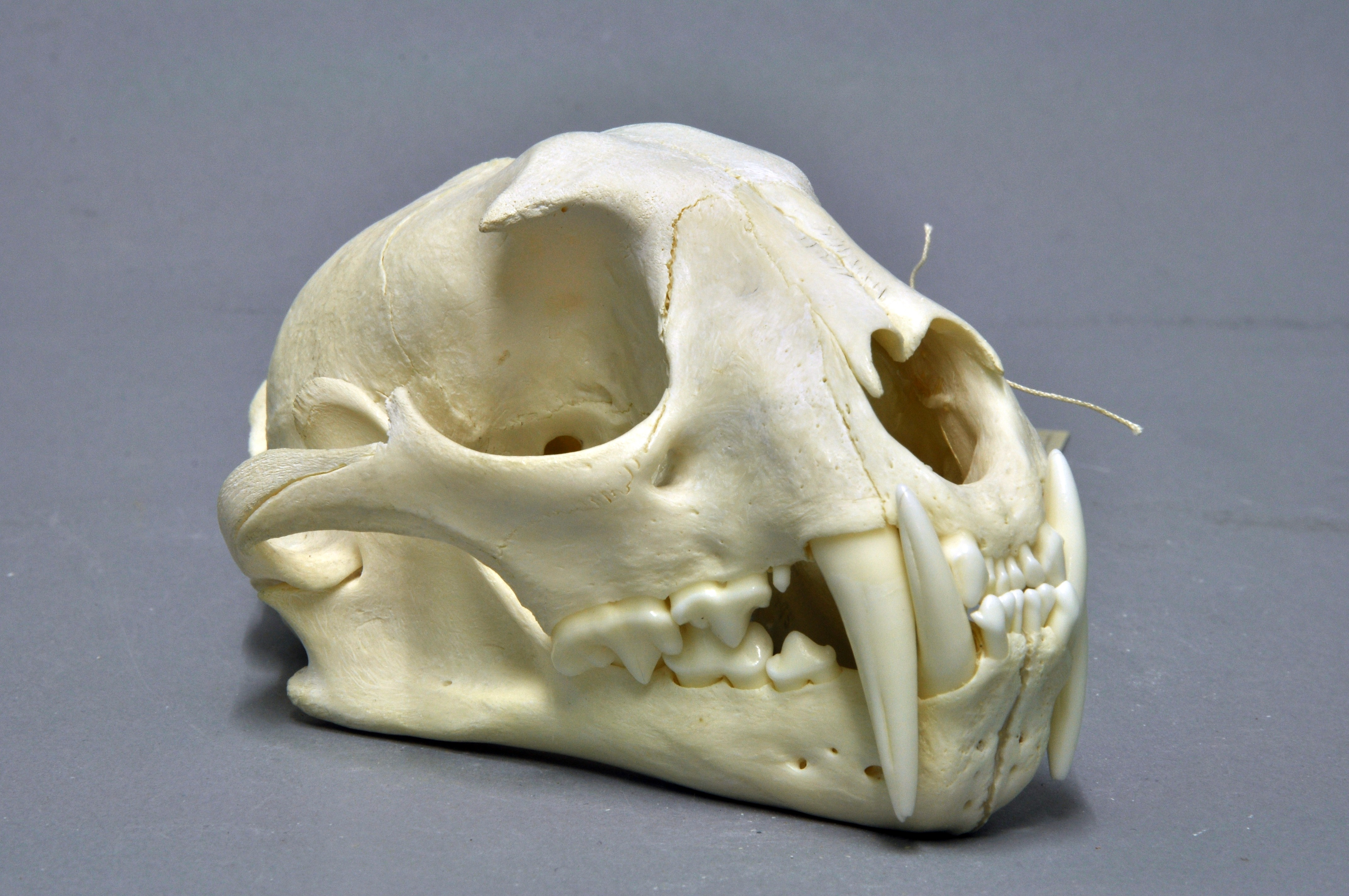 clouded leopard , skull, Coll. Museum Wiesbaden